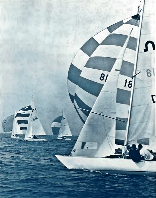 D 18, Spirit helmed by Tom Carlsen during the 1969 Soling Worlds